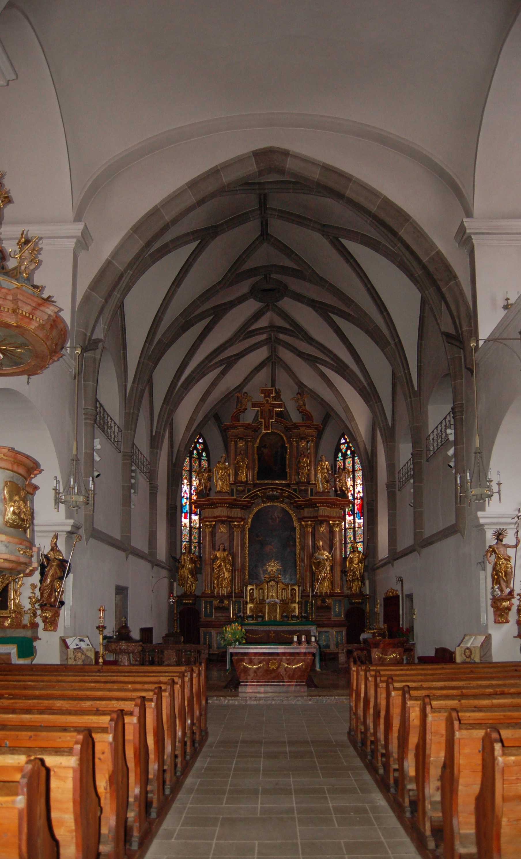 The parish church Saint Jacob in Windischgarten, Upper Austria is protected as cultural heritage monuments. Full exterior view.